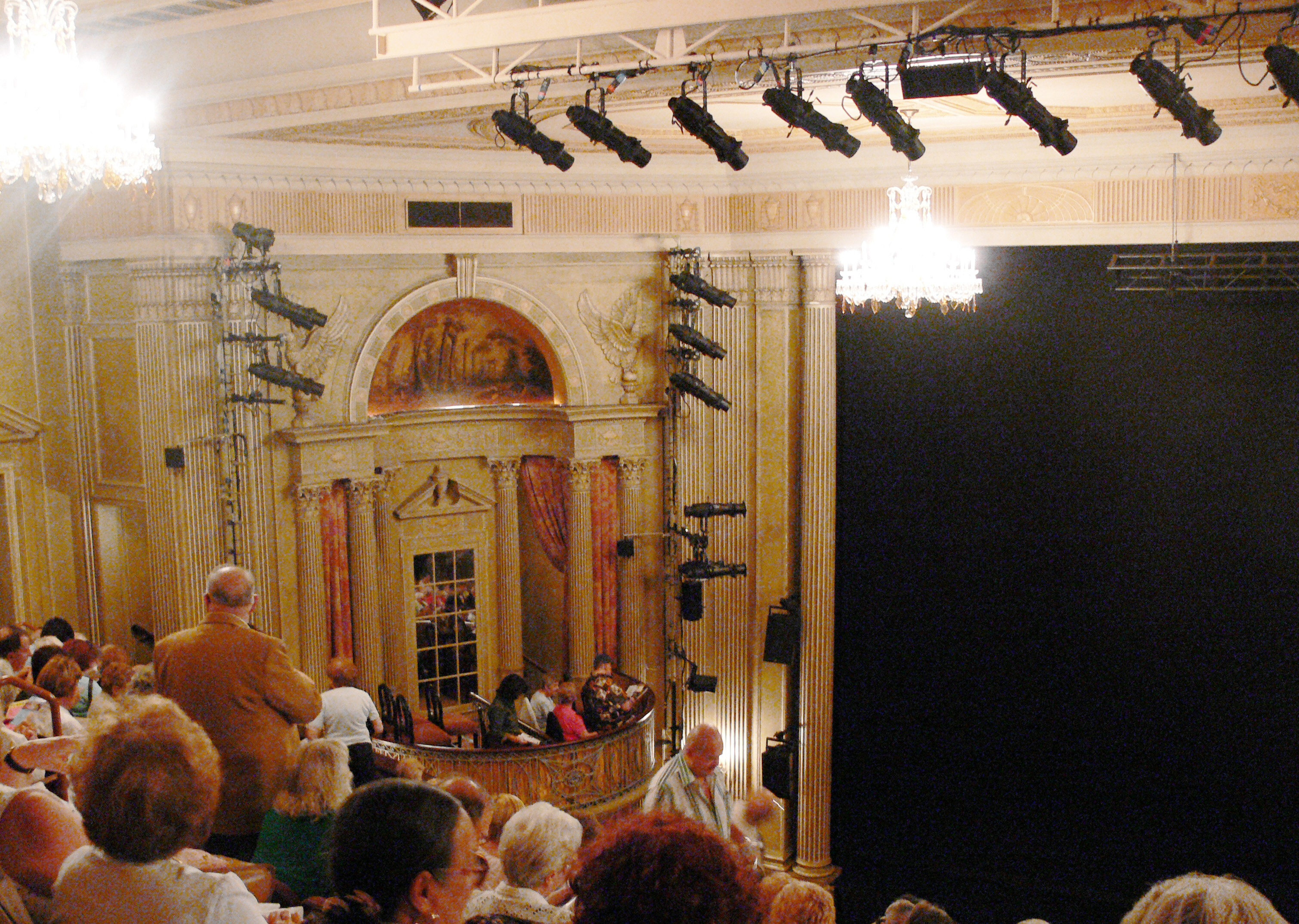 Music Box Theatre, View from balcony 239 West 45th Street, Manhattan, New York City